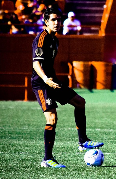 Mexican player David Cabrera